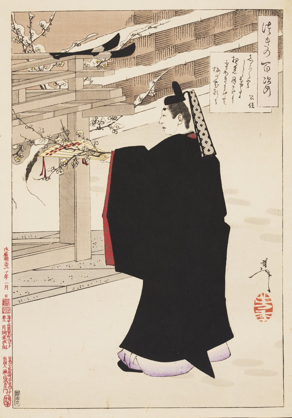 Kinto picks a plum branch in the moonlight